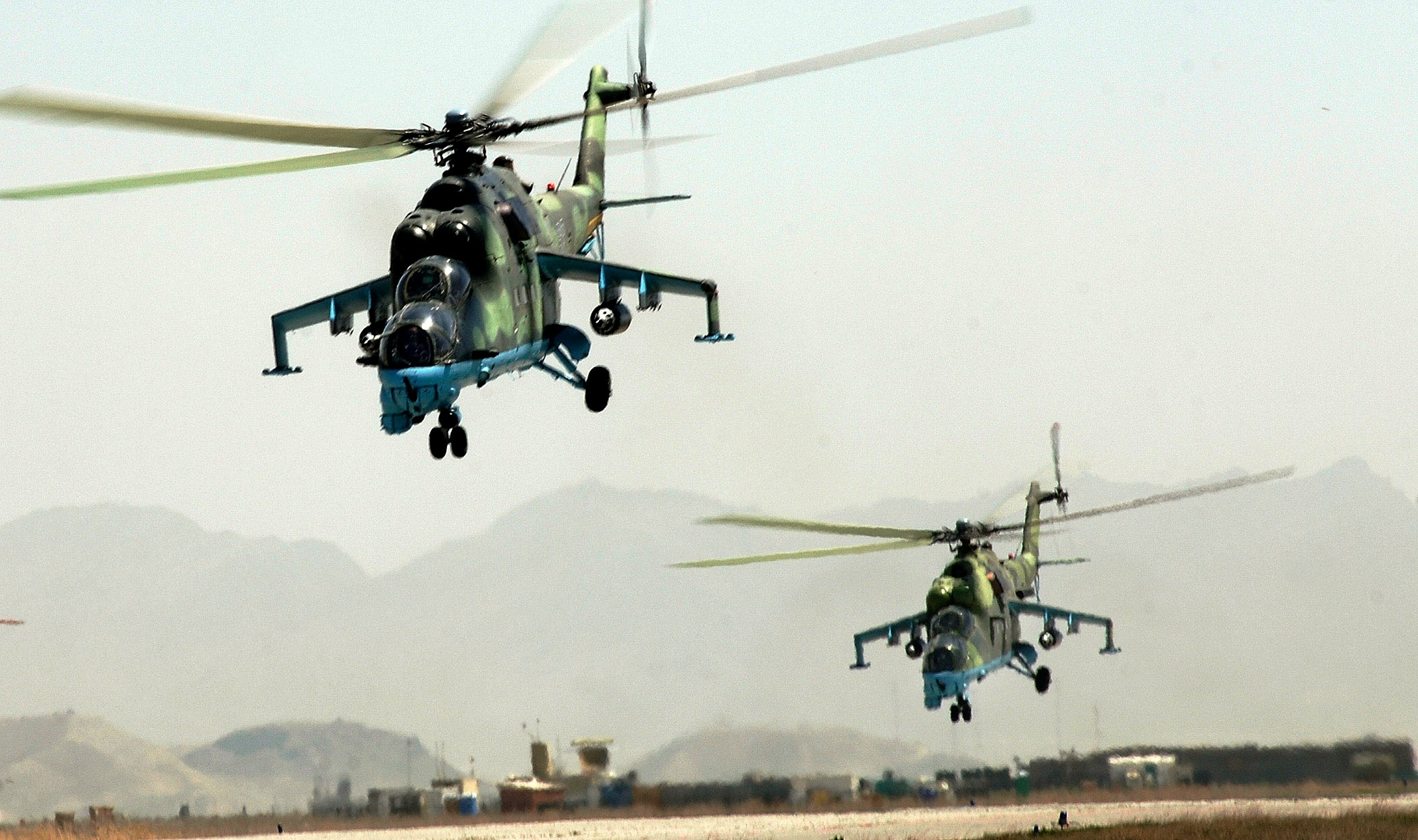 Afghan National Air Corps MI-35 helicopters take off in a formation practice for the aerial parade in the upcoming Afghan National Day in Kabul. Air Force mentors assigned to Defense Reform Directorate Air Division under Combined Security Transition Command - Afghanistan provide guidance to soldiers with the Maintenance Operations Group for the ANAC.